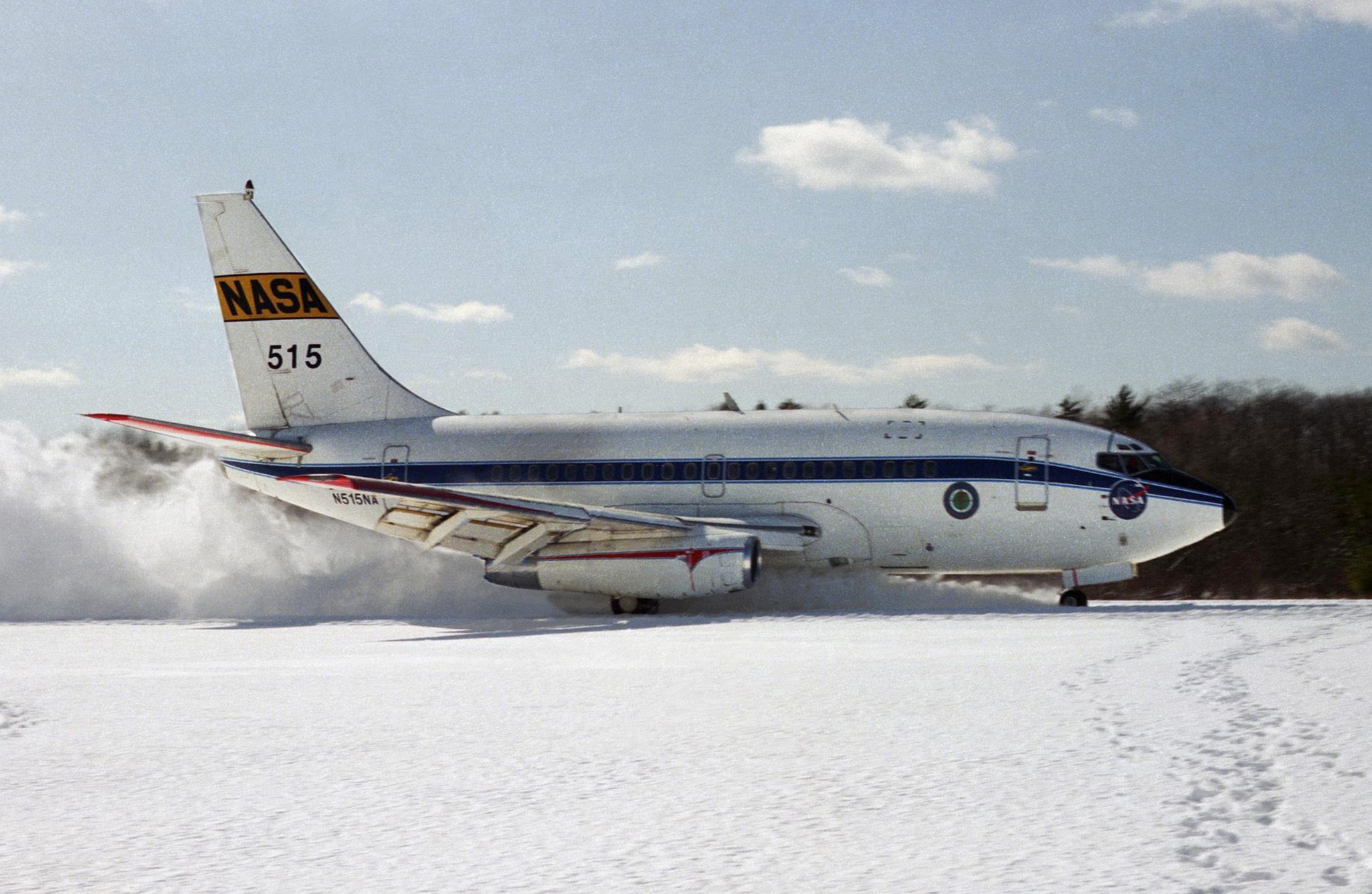 Brunswick Naval Air Station (NHZ/KNHZ), Brunswick, Maine, USAAircraft typeBoeing 737-100OperatorNASARegistrationN515NAActivitytest flightTypephotographDescription